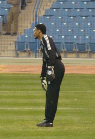 Mohamed Al-Deayea 2008-03-25 (1)